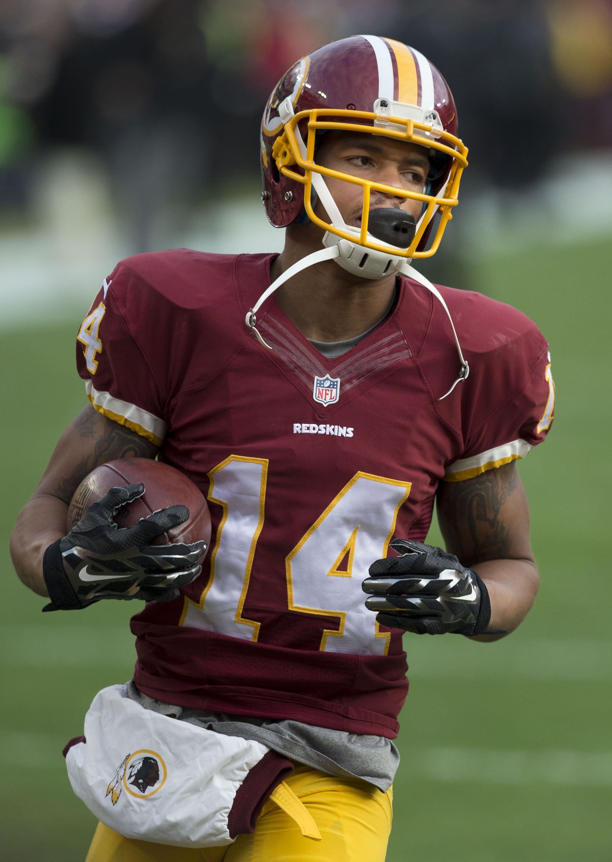 Washington Redskins wide receiver, Ryan Grant, during pre-game warm-ups in a game against the Philadelphia Eagles on December 20, 2014.